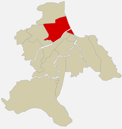 There was Shimonaganawashiro village in 1942. Now it is part of Hachinohe city.